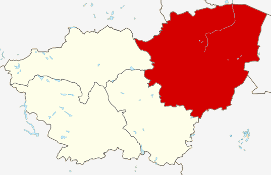 map showing Doncaster within South Yorkshire